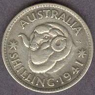 1941 Australian shilling coin. The champion ram depicted was Uardry 0.1 bred at Uardry Stud on the Murrumbidgee River between Carrathool and Hay, New South Wales